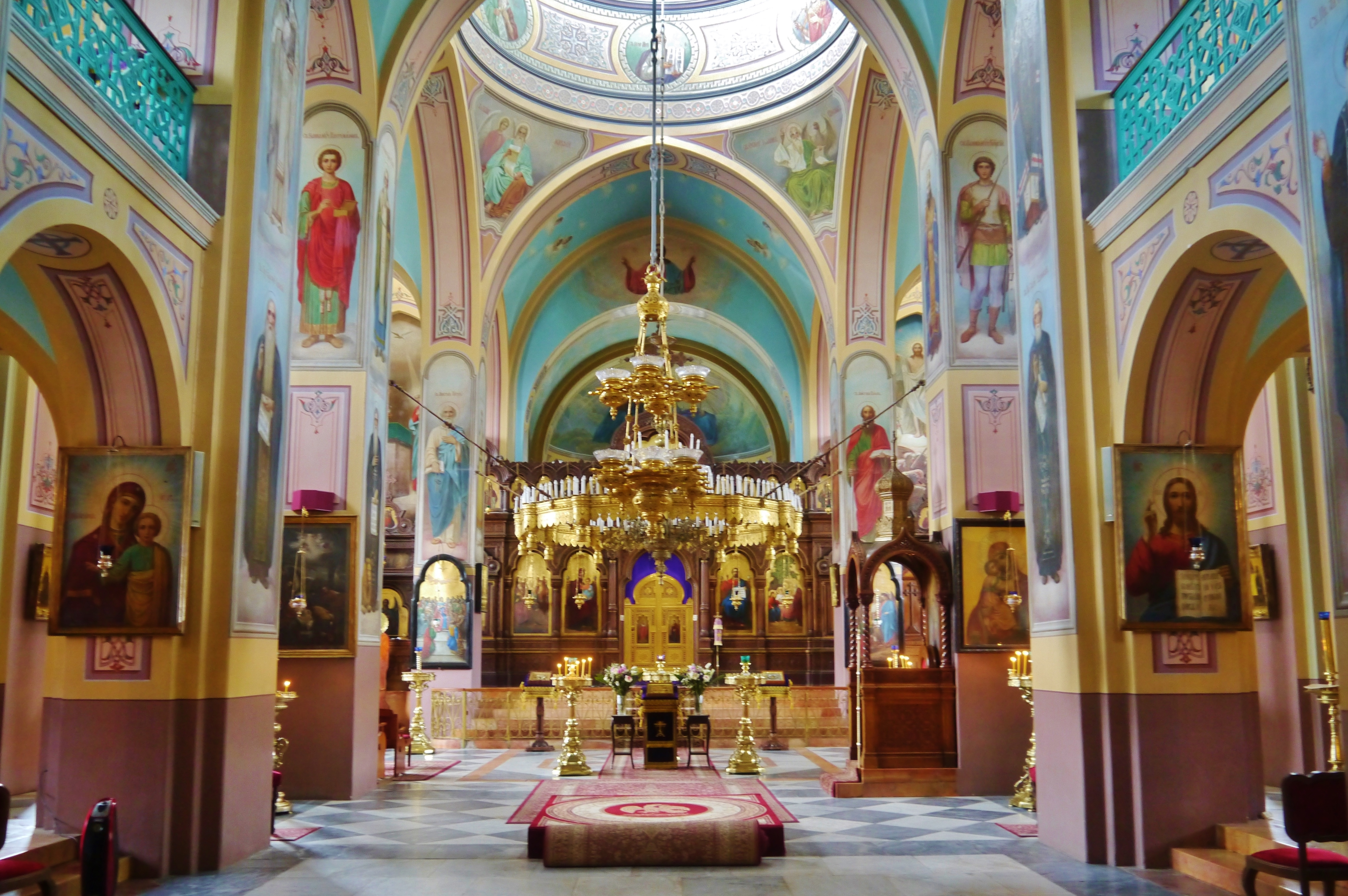 Nave of the Russian Orthodox Cathedral of the Holy Trinity, Jerusalem, Israel